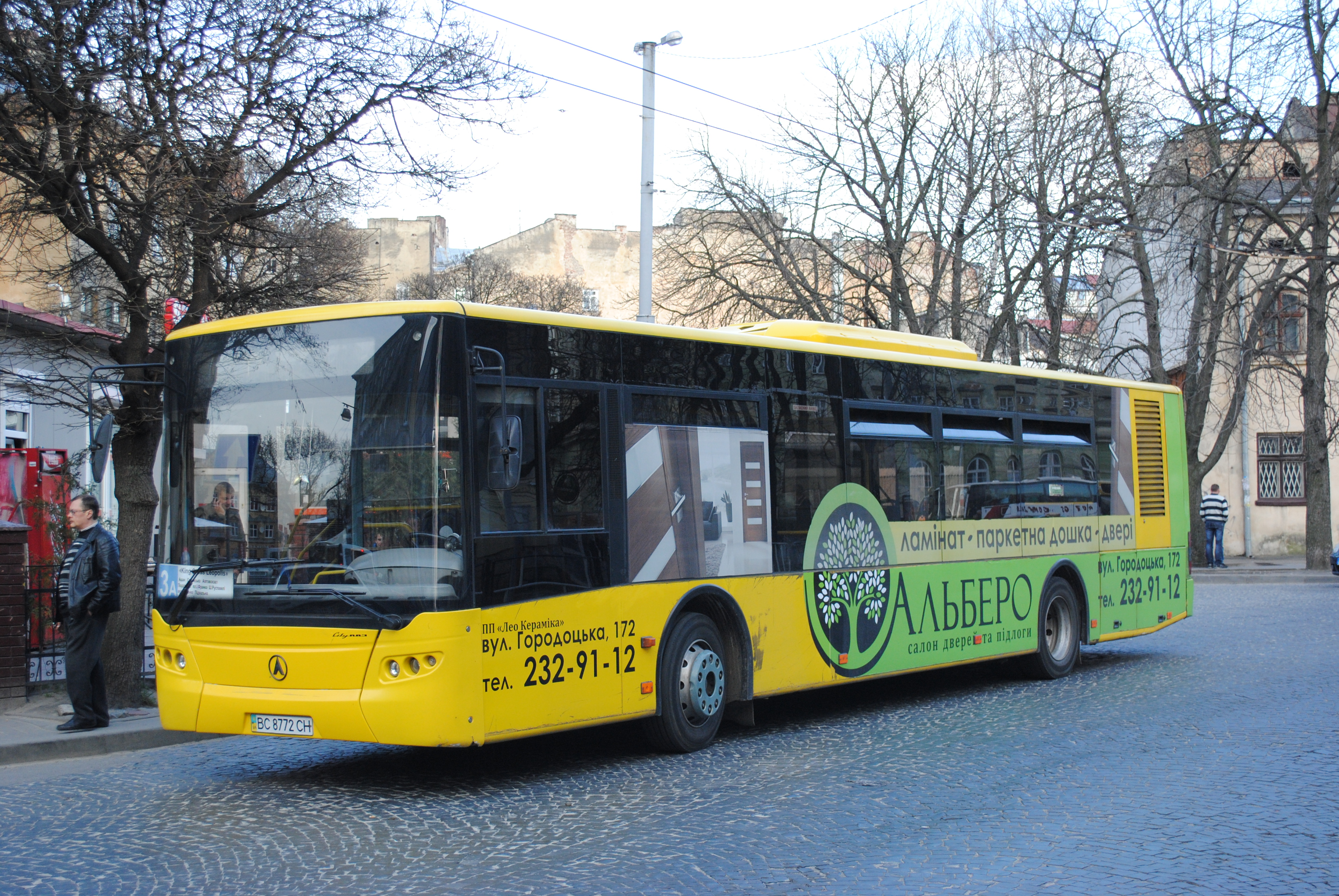 CityLAZ bus in Lviv on Massare Square (Ploschsa Rizni)